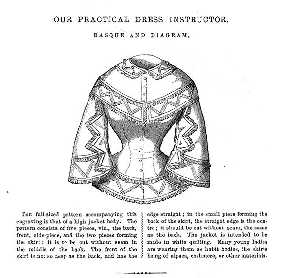 A detail of a page from Godey's Lady's Book, January 1857, showing a lady's basque offered as a pattern in the magazine, with description.